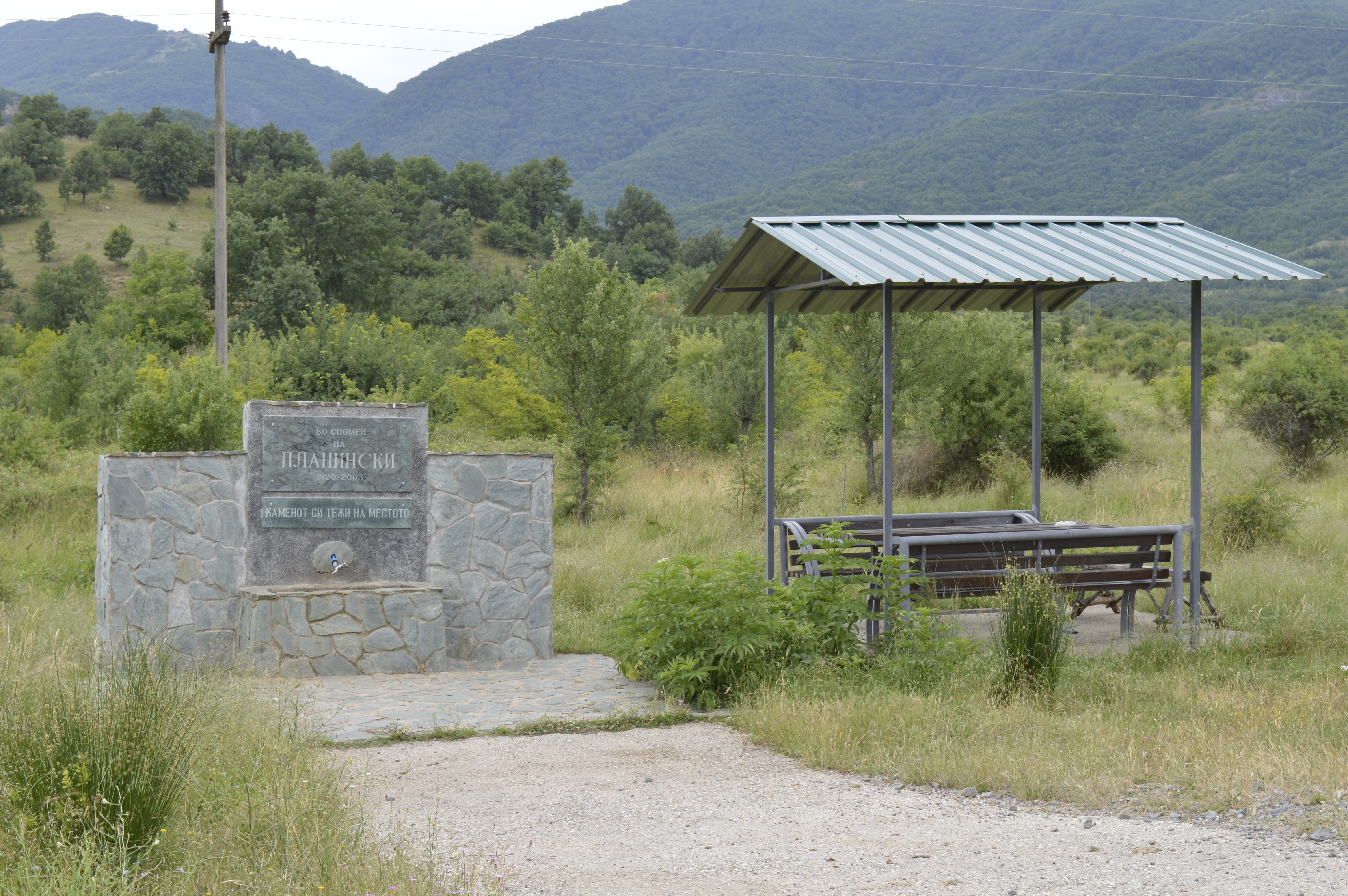 Monument near village Oraov Dol